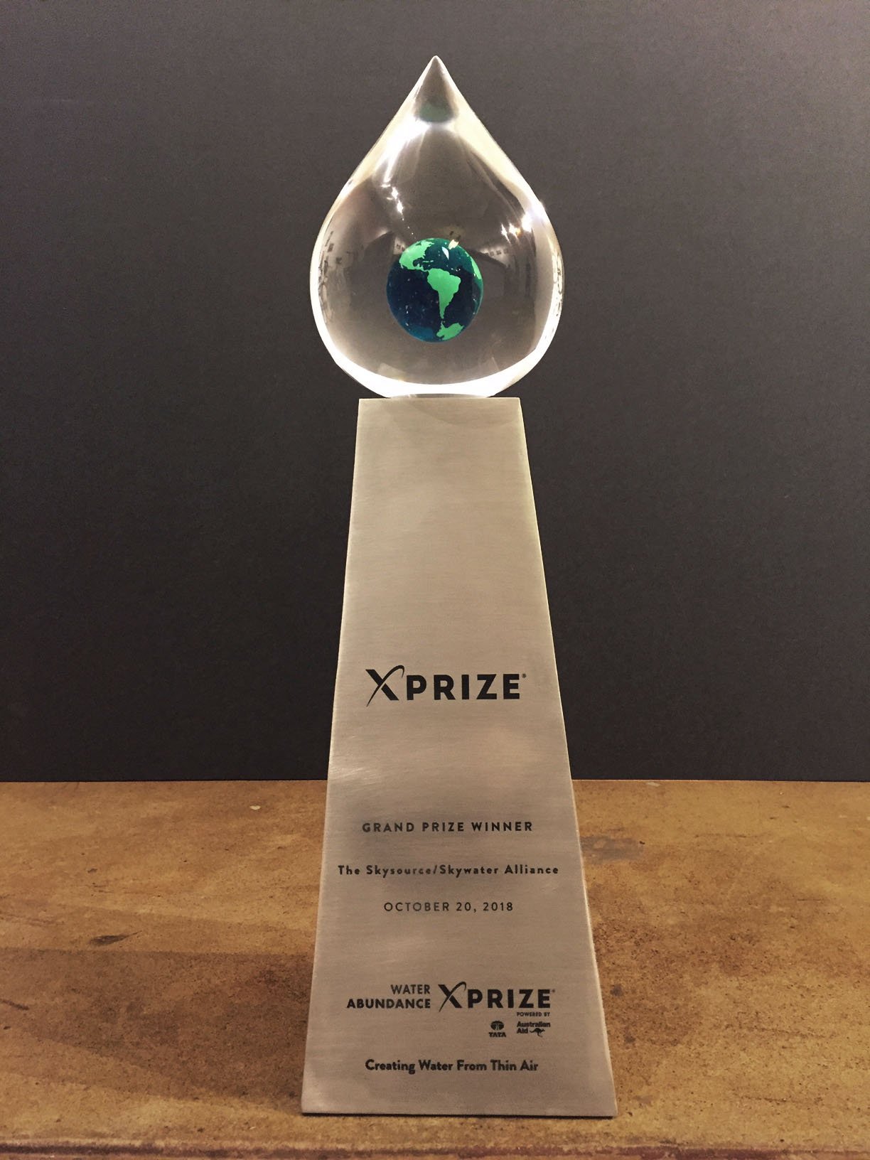 2018 XPRIZE Water Abundance Grand Prize Winner Trophy, awarded to Skysource/Skywater Alliance